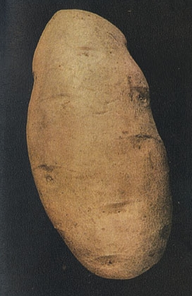 The Burbank Potato An improvement in one of the most important crops which, as has been stated by a member of the United States Departament of Agriculture, is adding seventeen million dollars a year to the farm incomes of America alone, to say nothing of foreign countries. This potato was produced by Mr. Burbank when in his 'teens, and was the result of finding a seed ball on his mother's potato patch. The perfection of this potato involved no form of crossing or hybridisation, but was brought about solely through utilizing the forces of environment and heredity - and by careful selection.